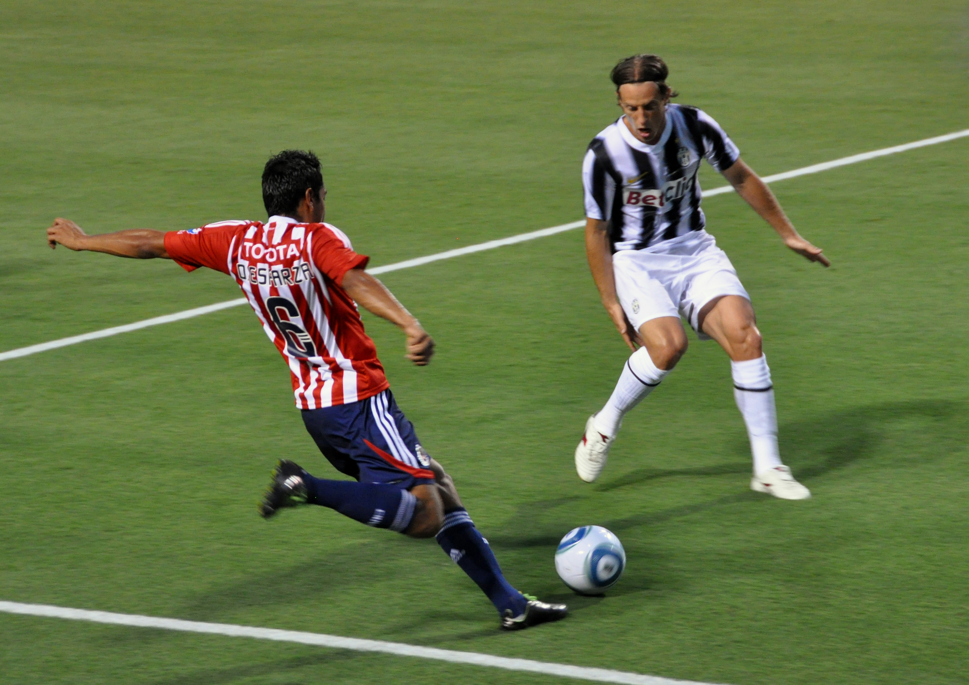 7/28/11 Guadalajara Chivas vs Juventus FC at Carter-Finley Stadium, Raleigh, NC.